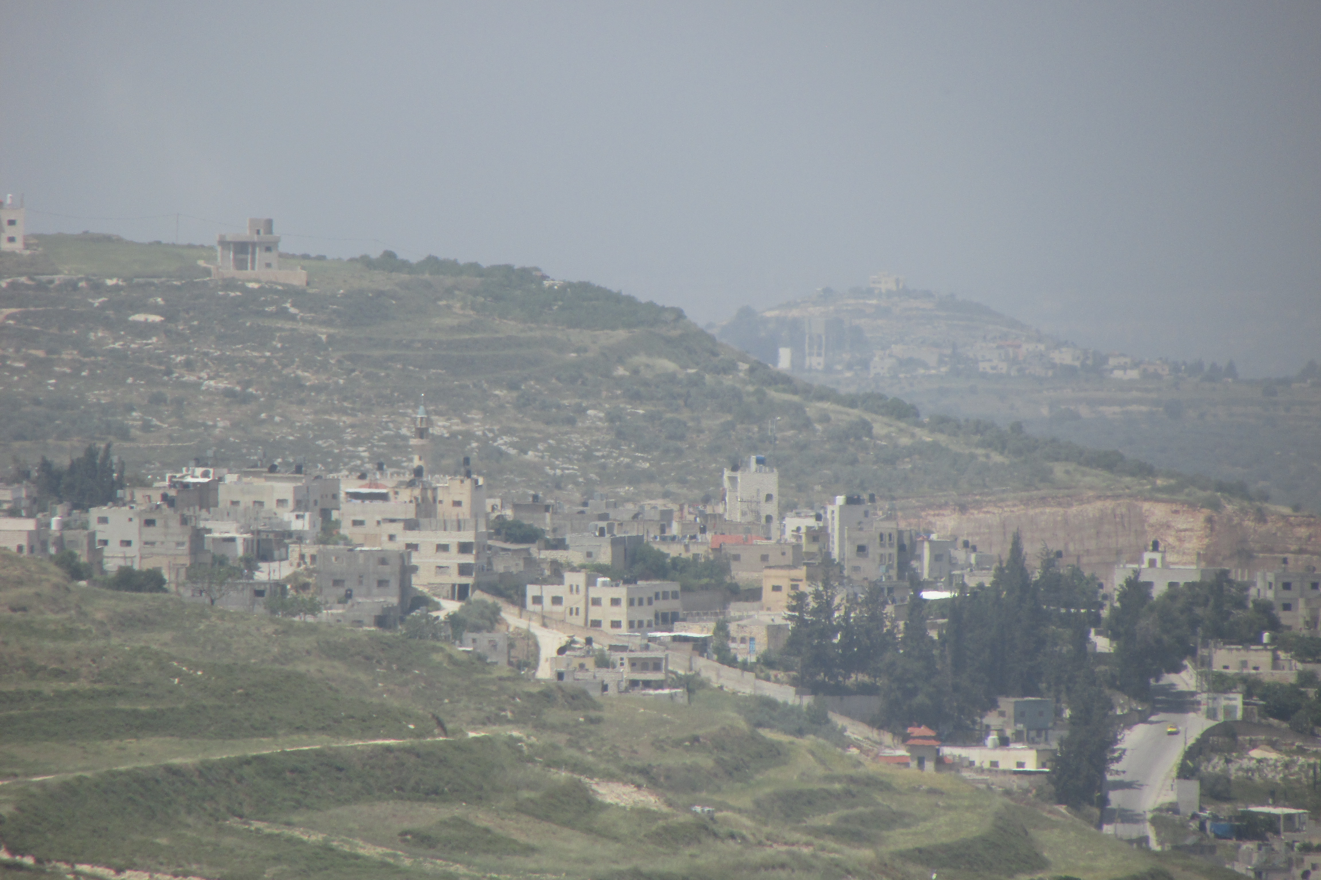 Houses of Asira al-Qibliya viewed from the east. From this angle only a small part of the village is seen.